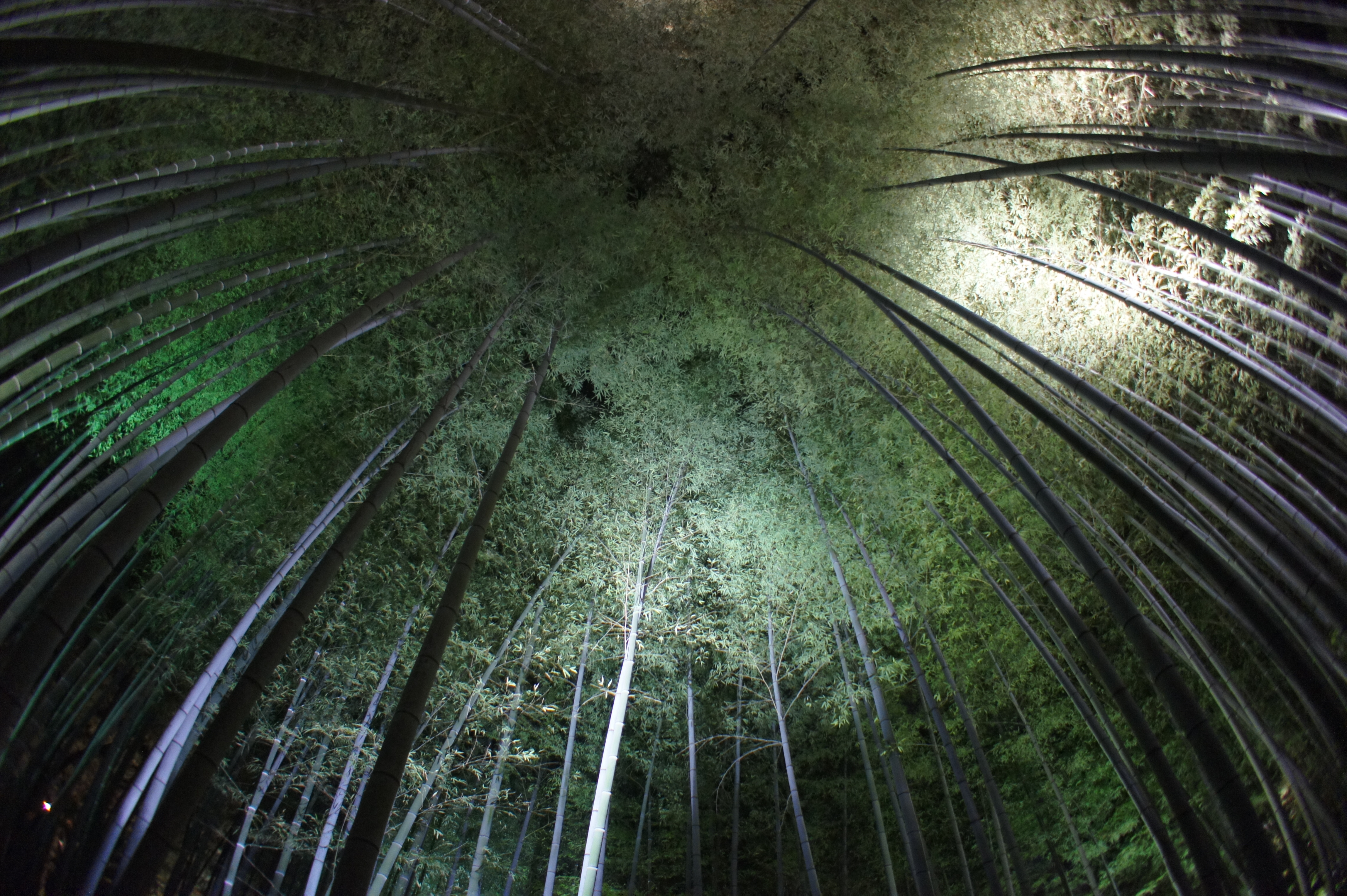 Bamboo forest in Kodaiji, Kyoto, Japan